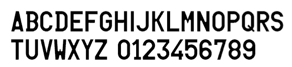 Belgium plate font